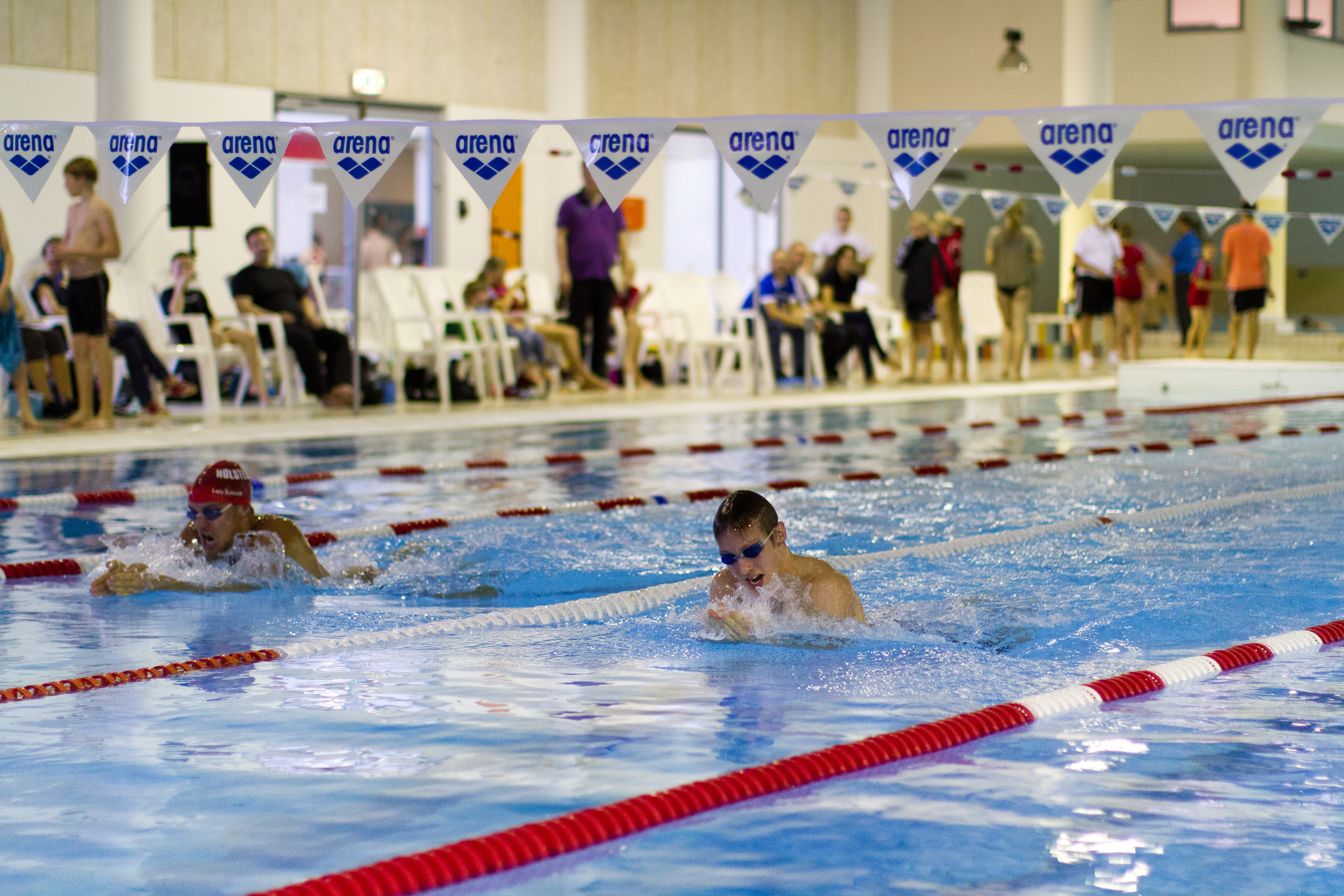 Club championship at Holstebro Svømmeclub (Holstebro Swim Club), autumn 2012.